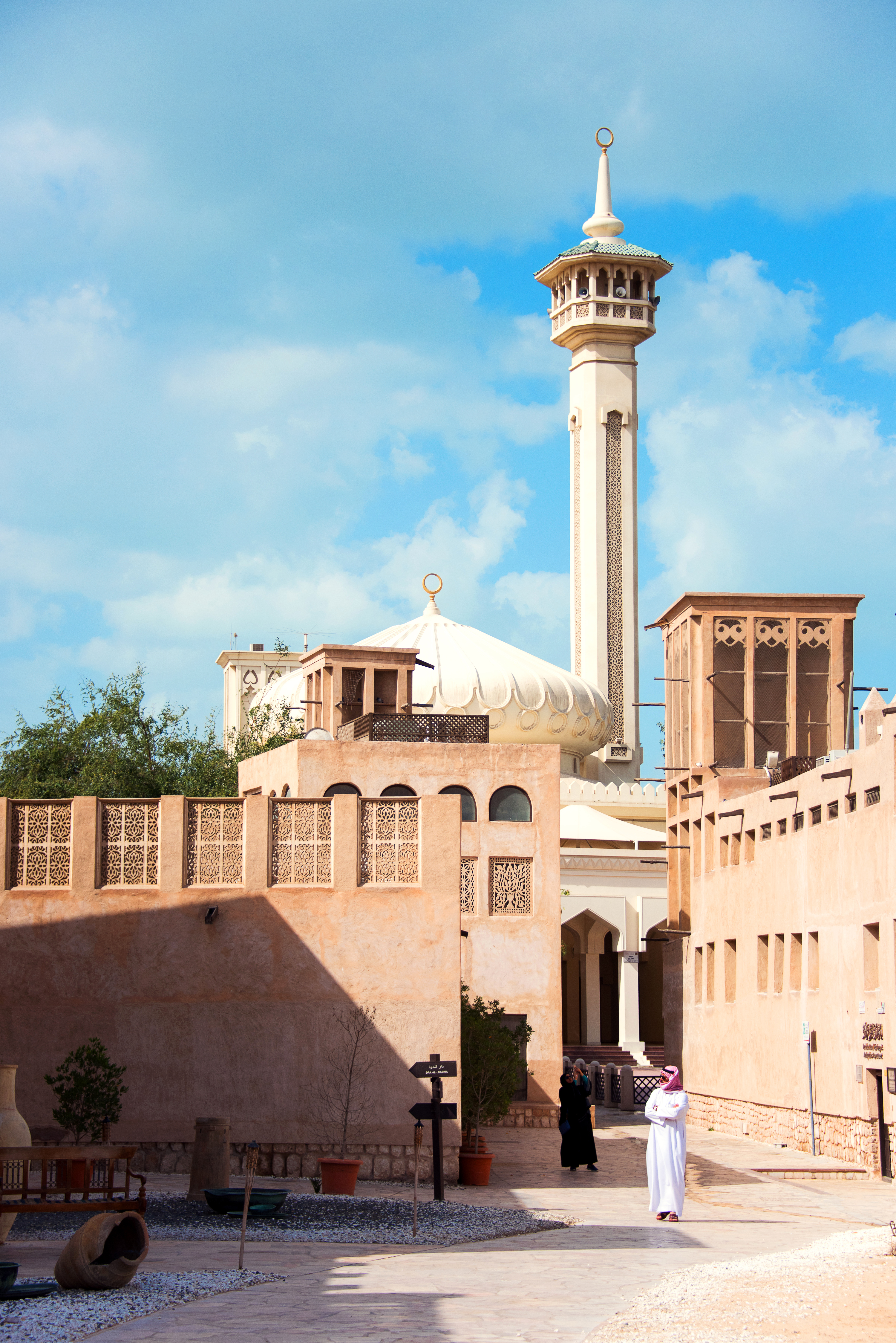 This image was taken in Dubai!